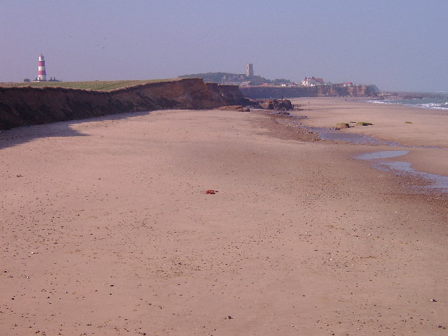 Low Light, Happisburgh. In the right of the picture on the beach can be seen remains of the 'low' lighthouse (described in 76829) which are large blocks of brickwork uncovered when the beach is low. In the distance can be seen the village of Happisburgh, with the 'high' lighthouse, St. Mary's Church, and the tea shop at the end of Beach Road.